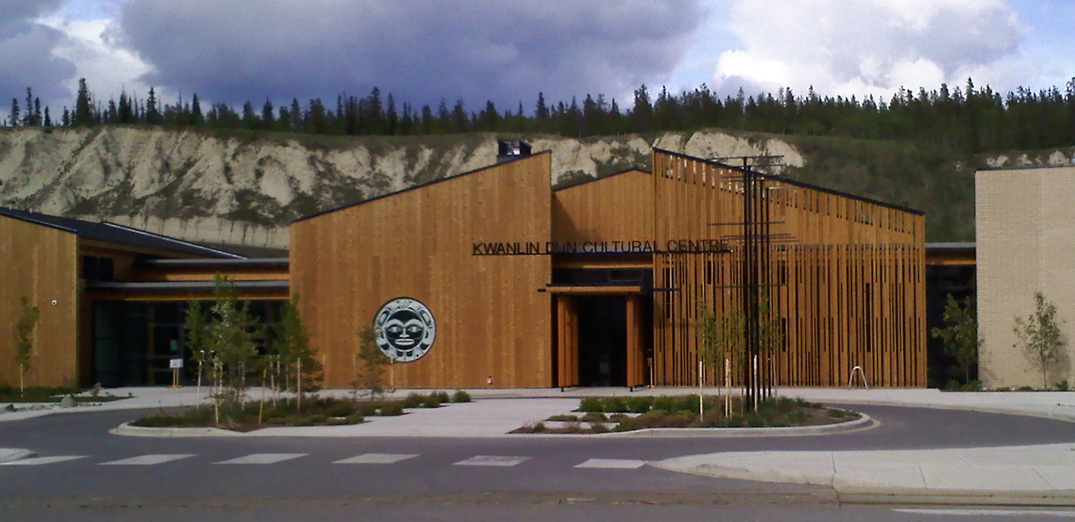 The Kwanlin Dün Cultural Centre, attached to the Whitehorse City Library.